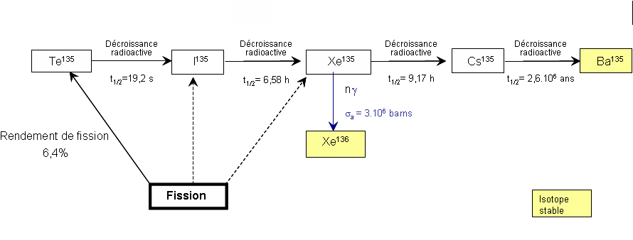 The Xenon chain (nuclear physics)